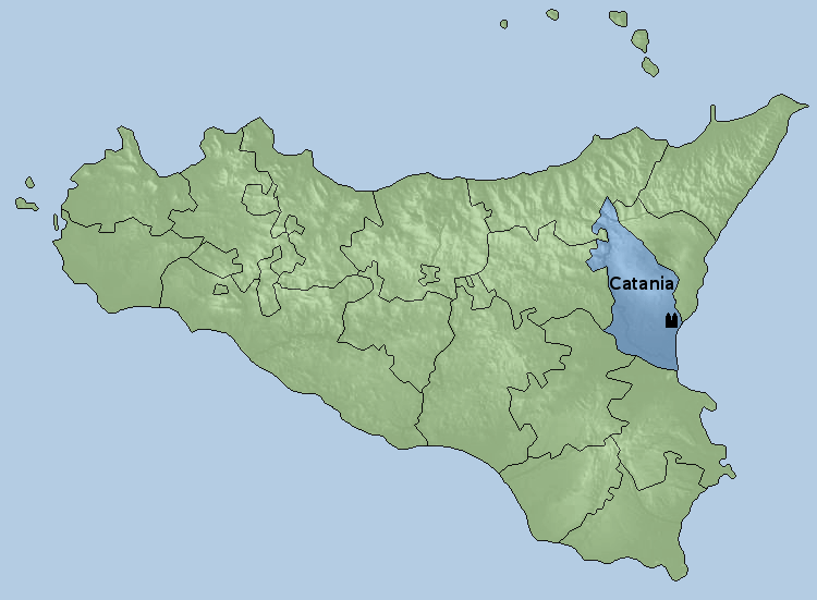 Map of the archdiocese of Catania (^^: Cathedral of a metropolitan diocese, –^: Cathedral of a suffragan diocese, ^–: Co-cathedral)